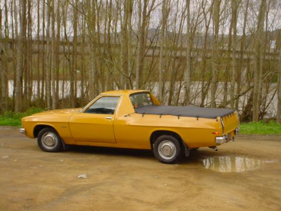 1974–1976 Holden HJ Kingswood utility.